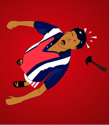 An artistic depiction of the fictional character Nesamani from the Indian Tamil comedy film Friends (2001)